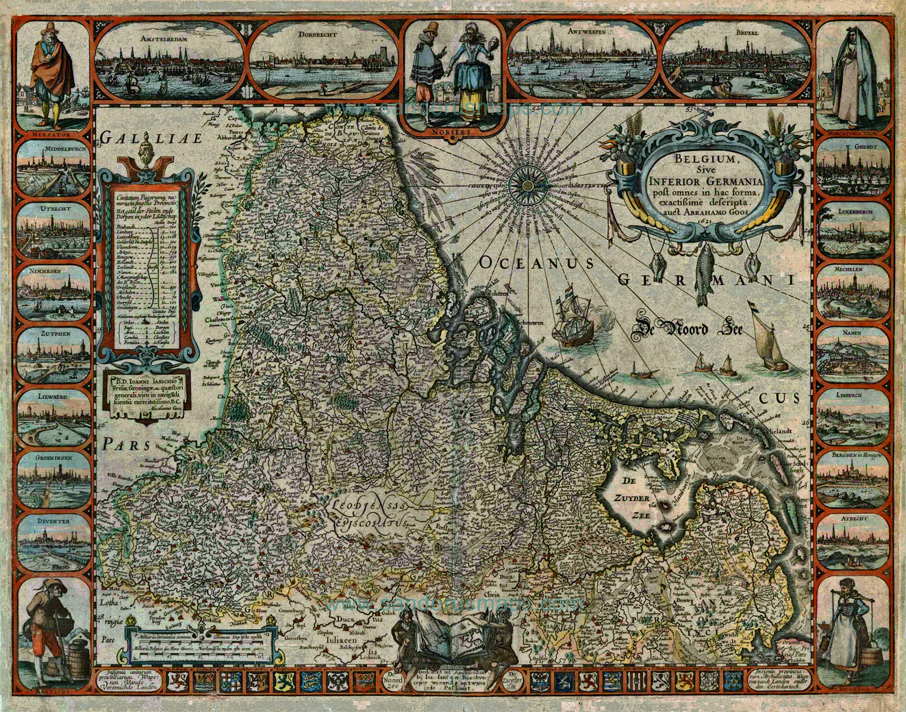 This card from 1621 was made by Abraham Goos and based on the map of the Seventeen Provinces of Willem Jansz Blaeu from 1608. A striking feature in the card content is the deliberate omission of the area known as 'Leodiensis Episcopatus'. The Liège diocese is empty on the map because it is not part of the seventeen provinces of the Netherlands in legal terms. This card is unique, there is no other card on which the area has been intentionally left empty. The recovery of the Zijper, Beemster and Purmer polders and a small area in the Dollart region is also indicated on the map. The card is issued by Ian Iansen (Johannes Janssonius?); In the cartouche at the bottom of the map in the middle, read the following text: 'Gedruckt tot Amstredam bij Ian Iansen Boekverckoper wonende in t water op de Paskaert.' Translated: 'Printed in Amsterdam by Ian Iansen Booksalesman living in the water on the Paskaert.'